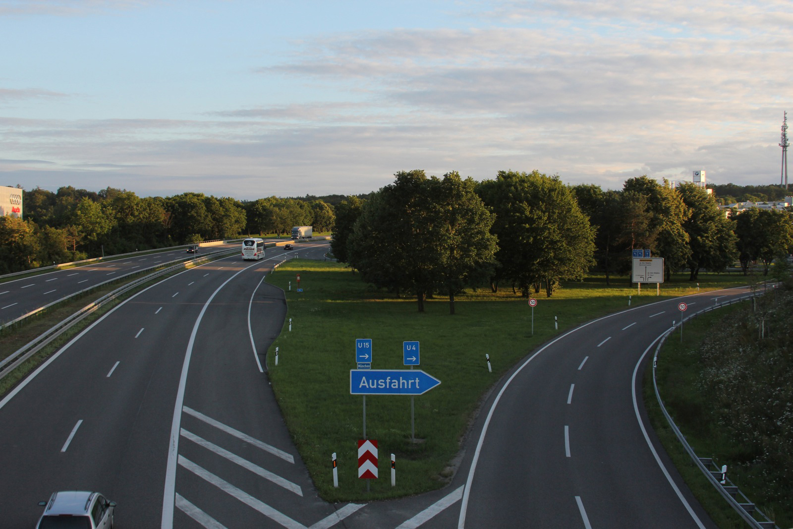 German Autobahn #831 at Stuttgart-Vaihingen, picture taken facing the direction towards the Kreuz Stuttgart highway interchange